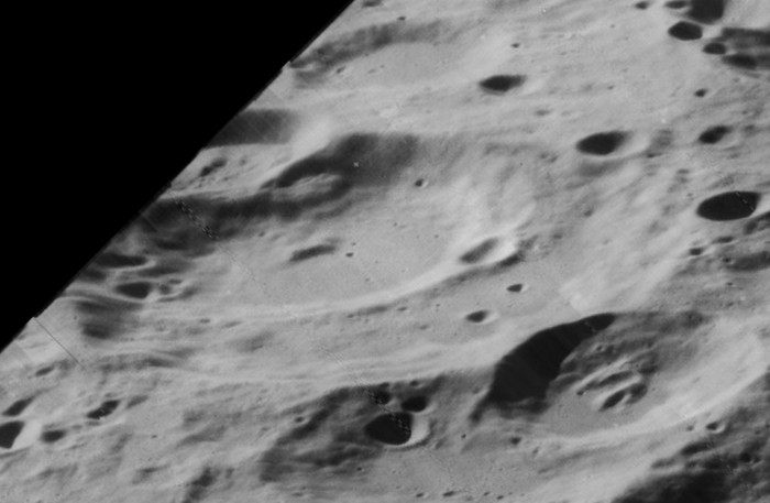 Oblique view of Perrine, on the far side of the moon, facing west. (Black field in upper left is edge of original photo.)